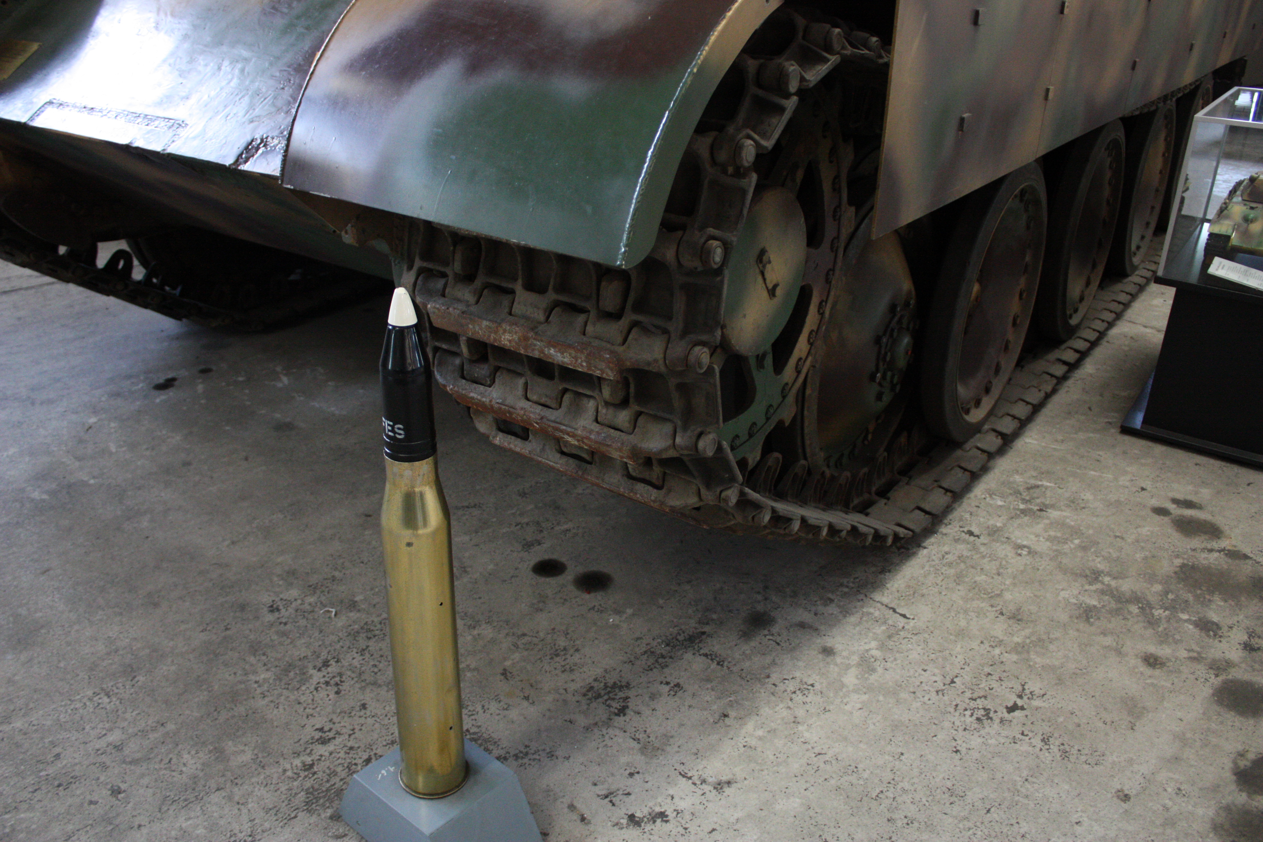 Granade-cartridge of the German Wehrmacht until 1945, here: caliber 75×640 mm R (R = rimed cartridge) to 7.5-cm-KwK 42 and 7.5-cm-StuK 42, German Tank Museum (Munster, Lower Saxony, Germany).